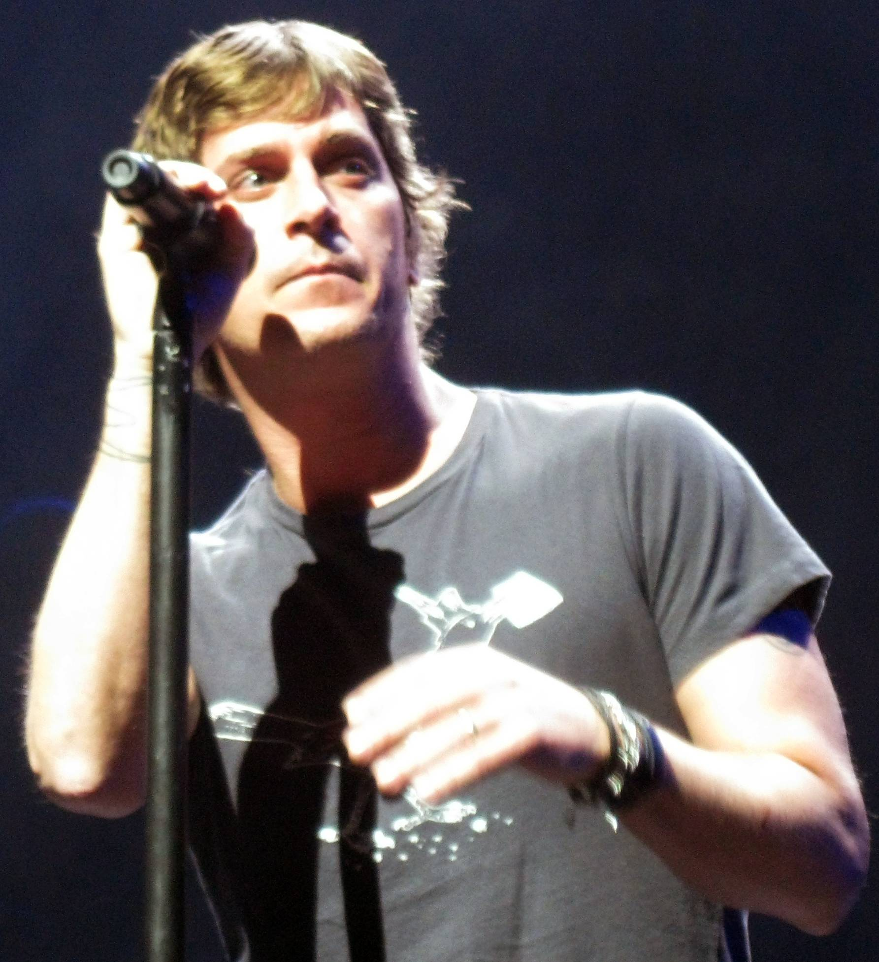 Took at Matchbox Twenty concert at Las Vegas (The Venetian) - IBM Impact 2013-04-30.